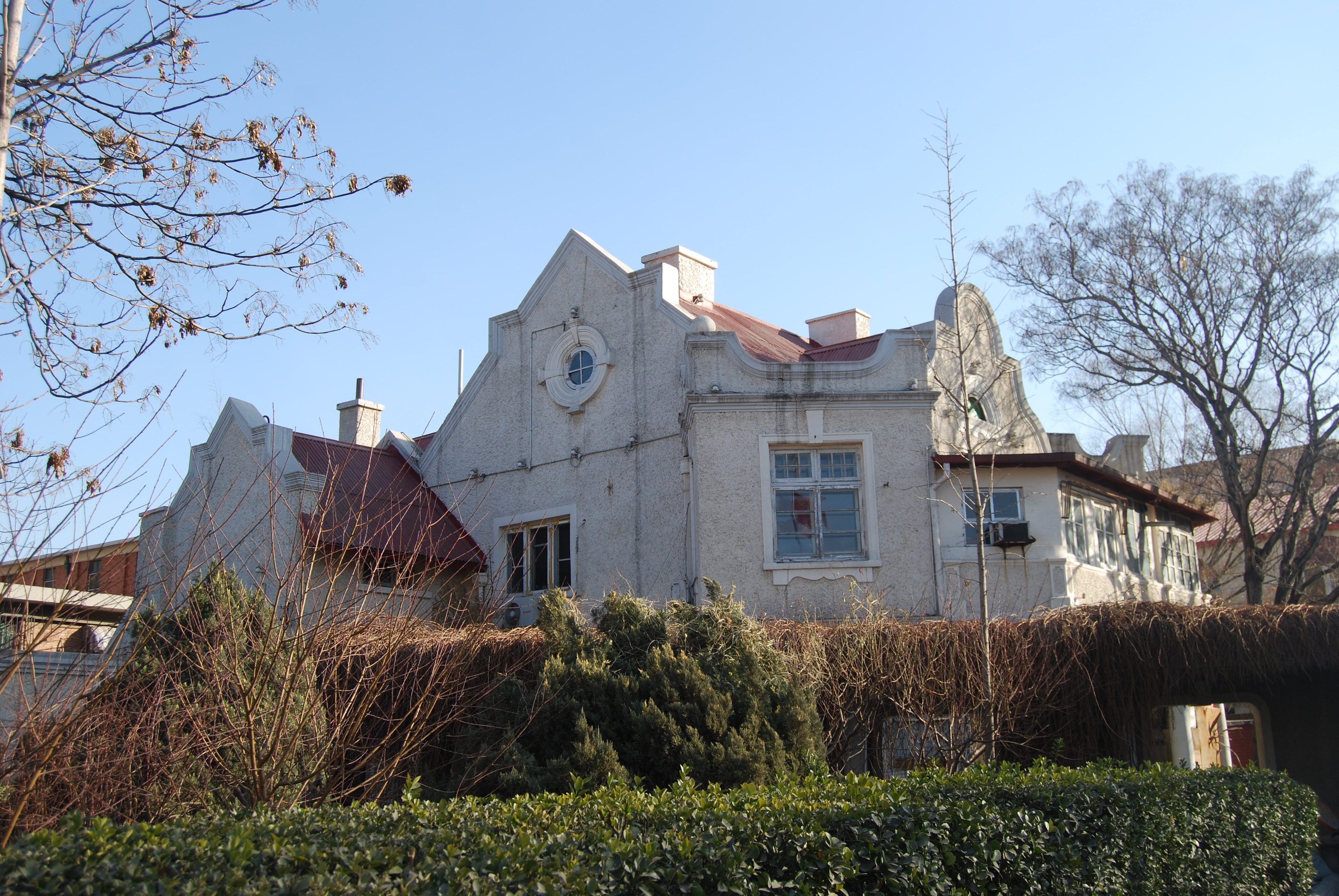 Dawenshi (Da Vinci) Building in Machang Dao No. 121, Heping District, Tianjin